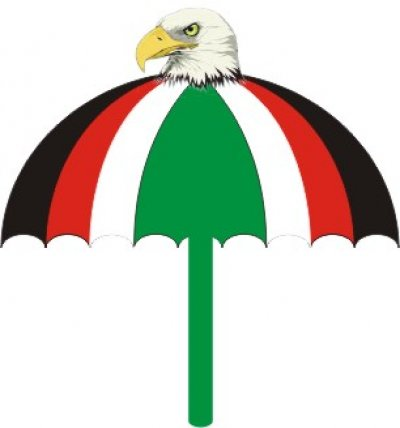 The logo of the National Democratic Congress; a political party in Ghana